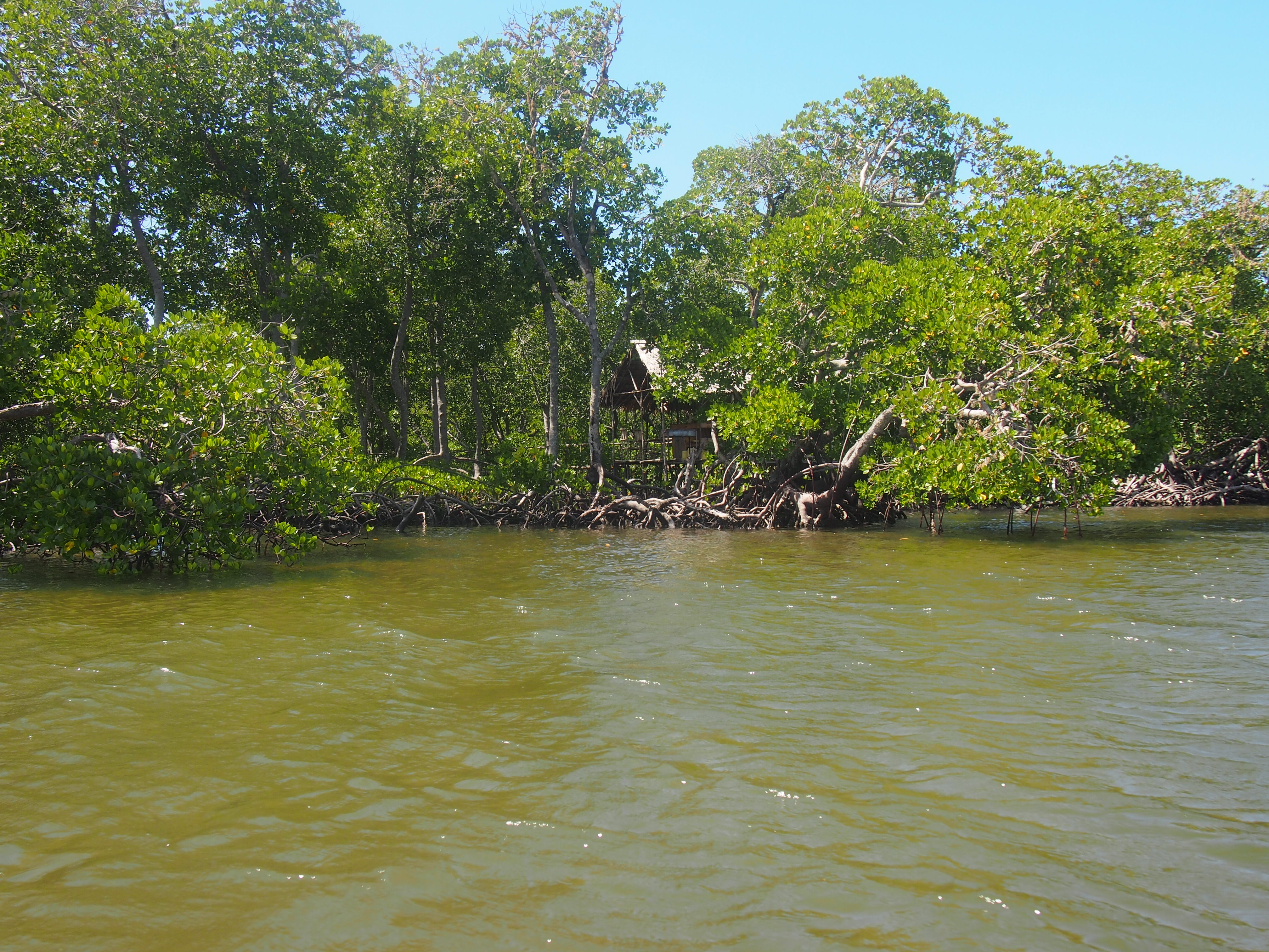 Mida Creek near Watamu, Kenia at high tide